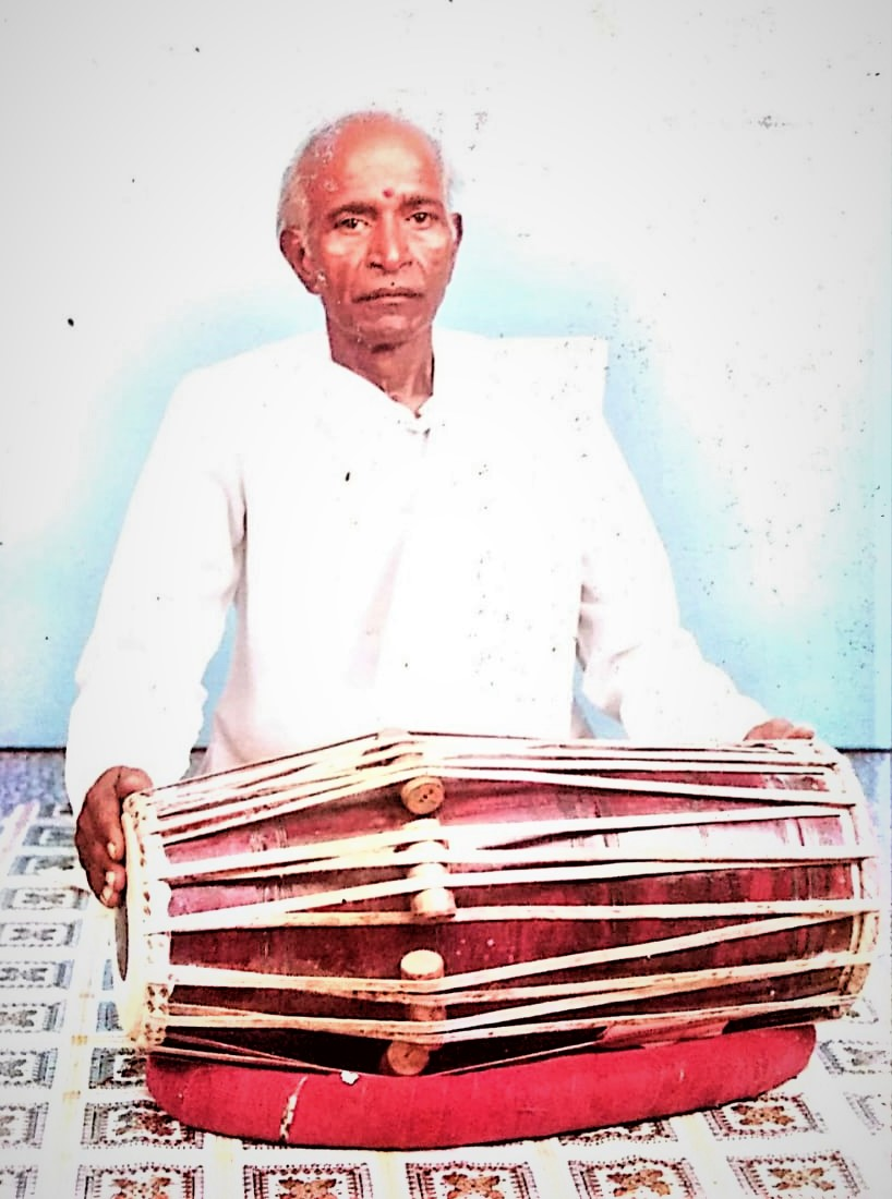 Pt. Guru Mahadev Raut With Mardala